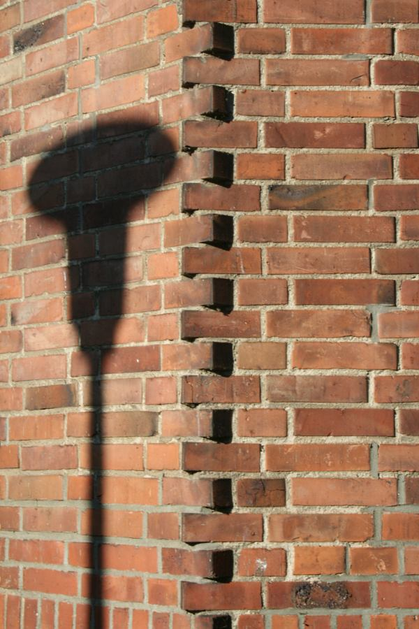 Friedrich-Engels-Platz Waren (Müritz), Germany